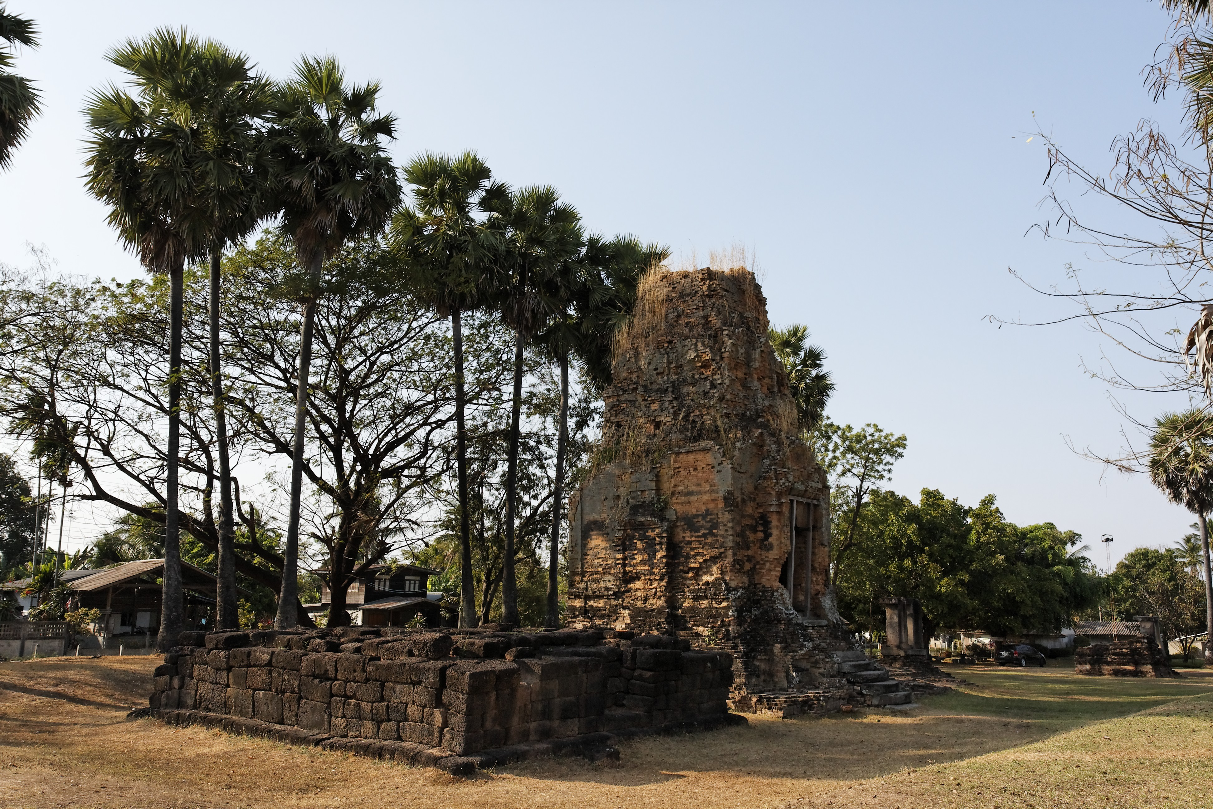 Prasat Phum Pon, Thailand